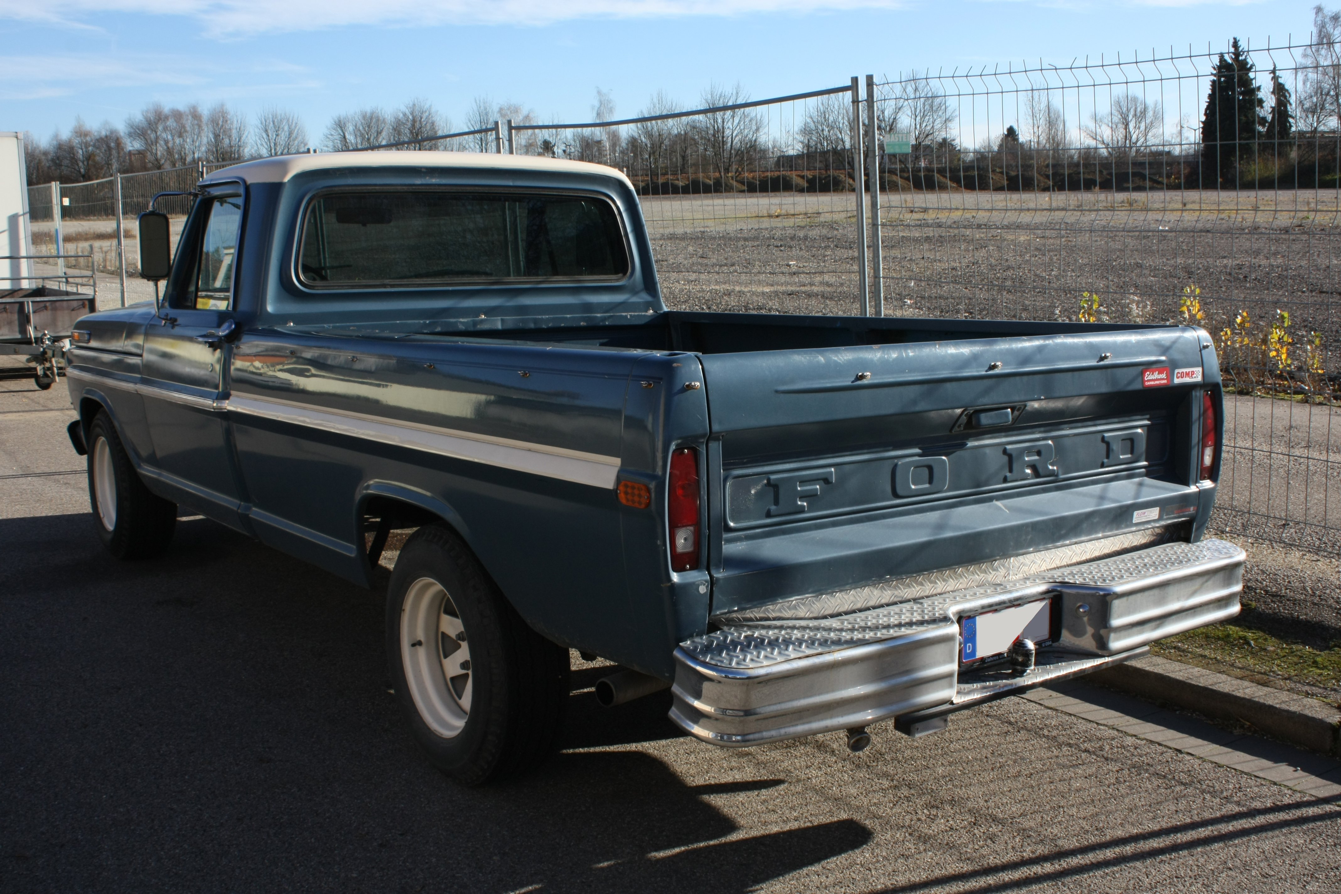 1972 Ford F-100